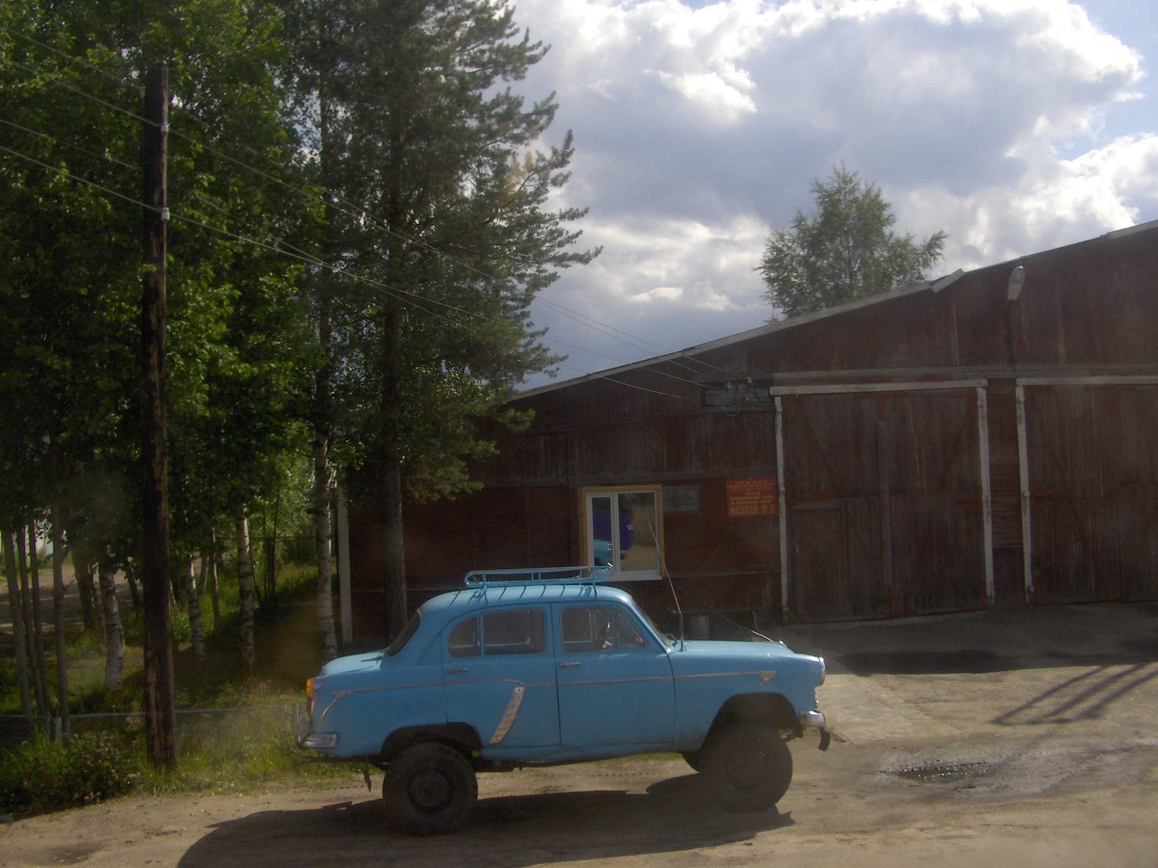 Moskvich 410, Muyezerskii, Republic of Karelia, Russia